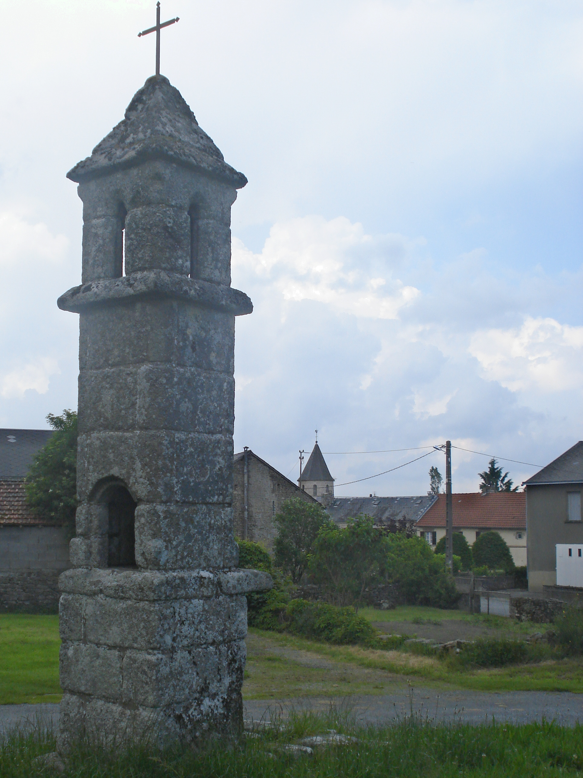 Goussaud (Creuse, Fr) lanterne des morts with view on the village